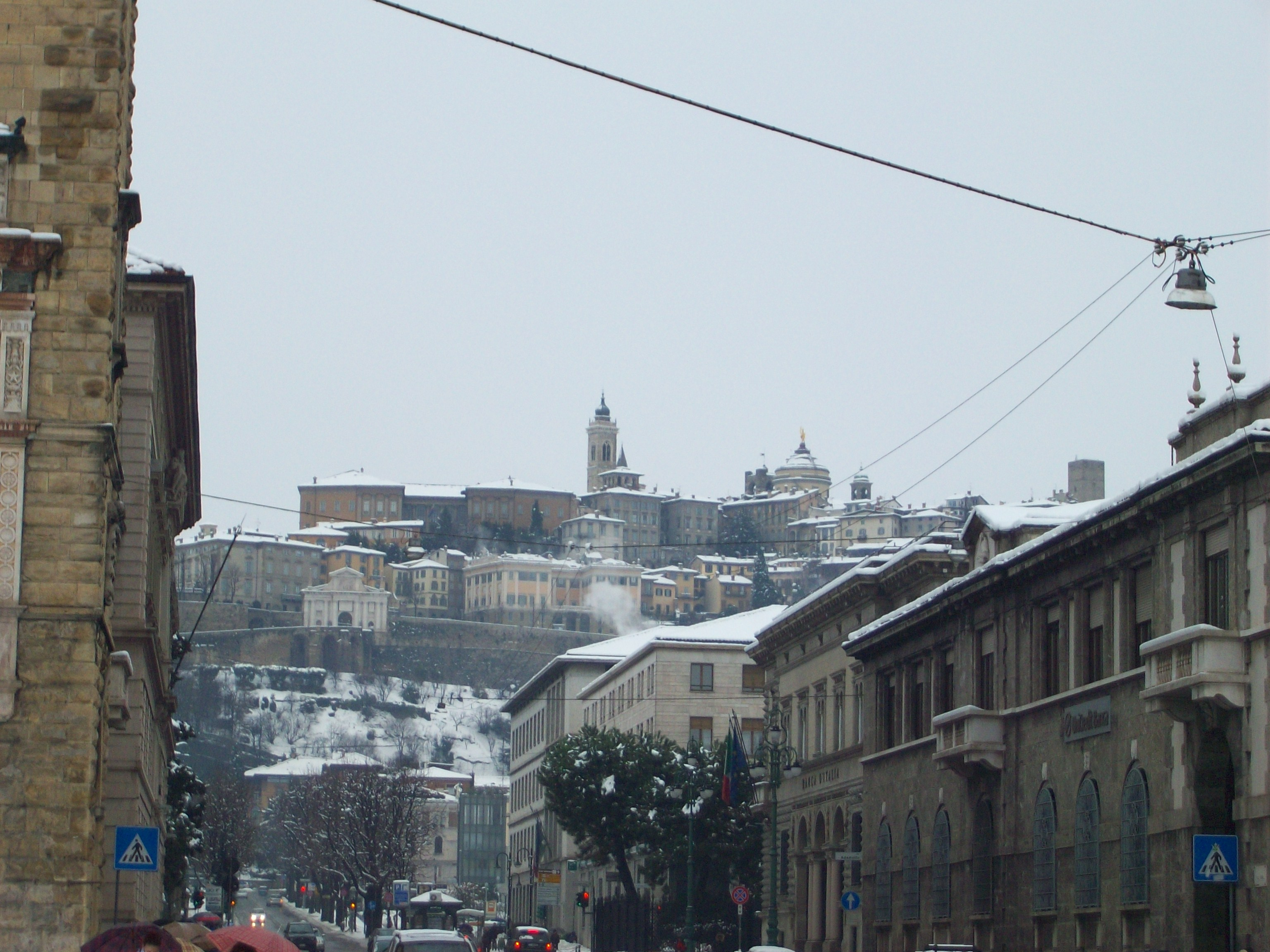 Bergamo under the snow